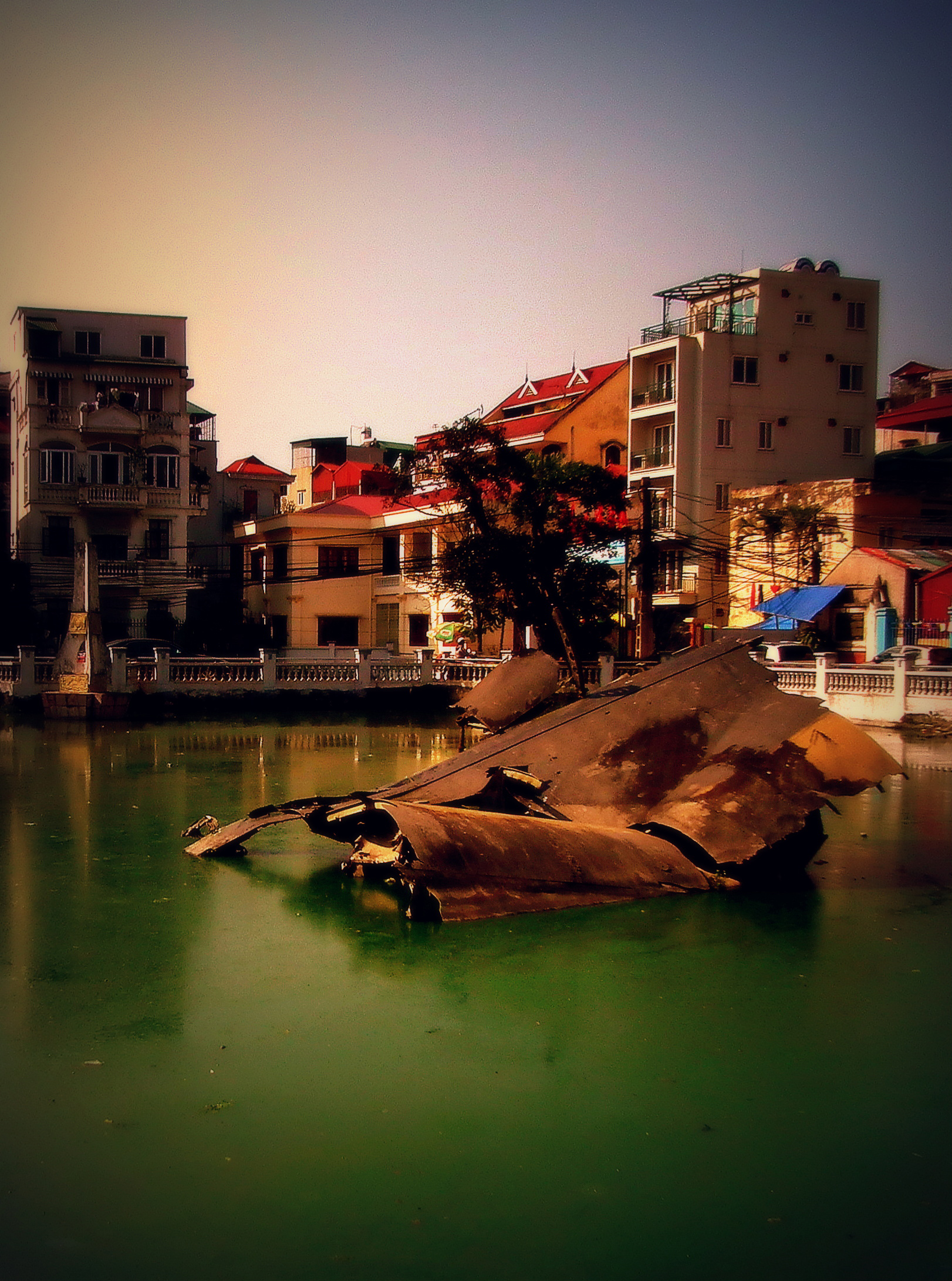 B52 CRASH WRECKAGE AT HUU TIEP LAKE HA NOI FEB 2012